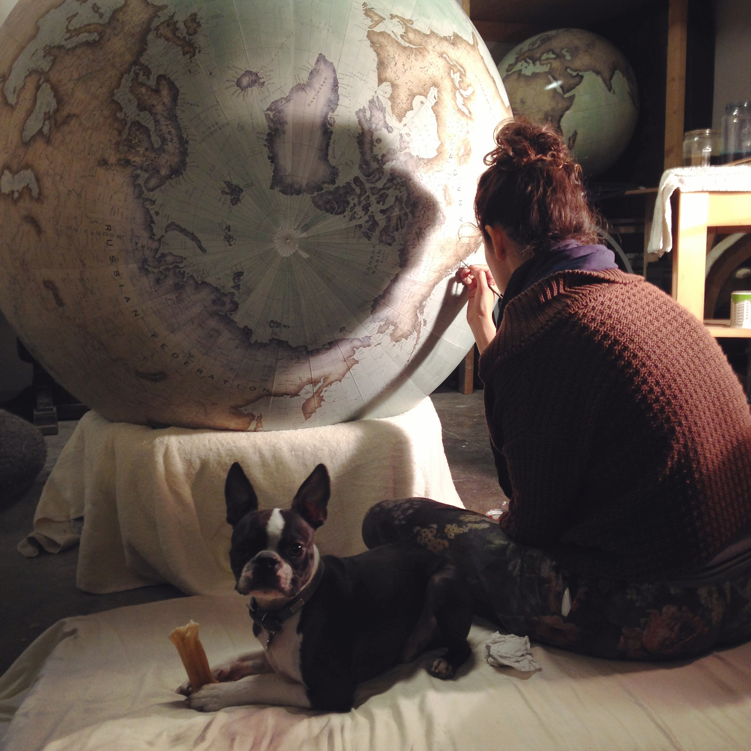 See email below use of this image is freely authorised as long as Bellerby and Co are correctly referred to if re-used. From: Jade Fenster Date: June 01, 2015 12:26:21 PM To: Ollie Dewis Subject: Permission for use of my photos HI Ollie, You have permission to use all my photos. Include are some more of the Churchill. Both the one we are working on now and the last we made. Best, Jade Fenster Instagram @globemakers